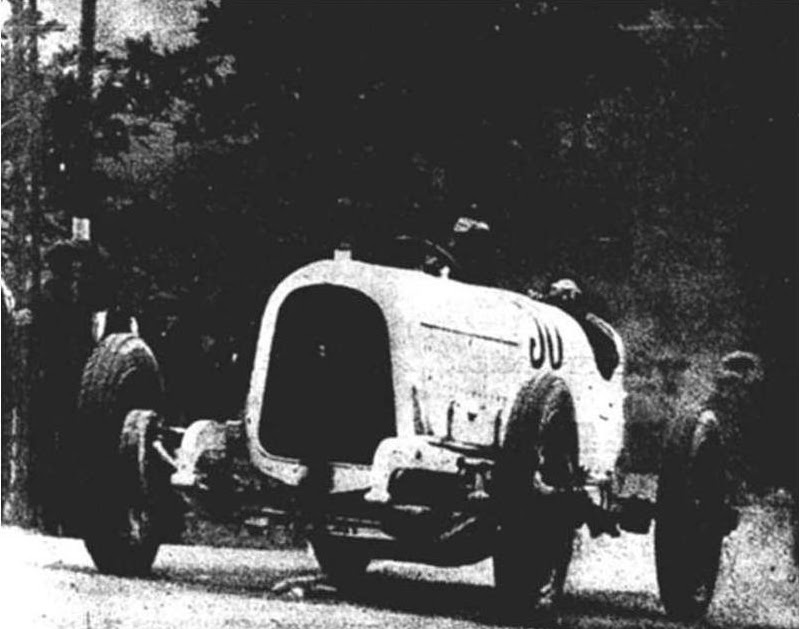 An Elizalde car during the Pujada a l'Arrabassada, a race in Barcelona (Catalonia) in 1923